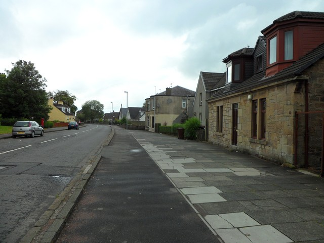 Main Street, Chryston